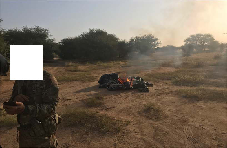 Motorcycle destroyed by Team Ouallam and Nigerien force before the Tongo Tongo ambush, on 4 October 2017